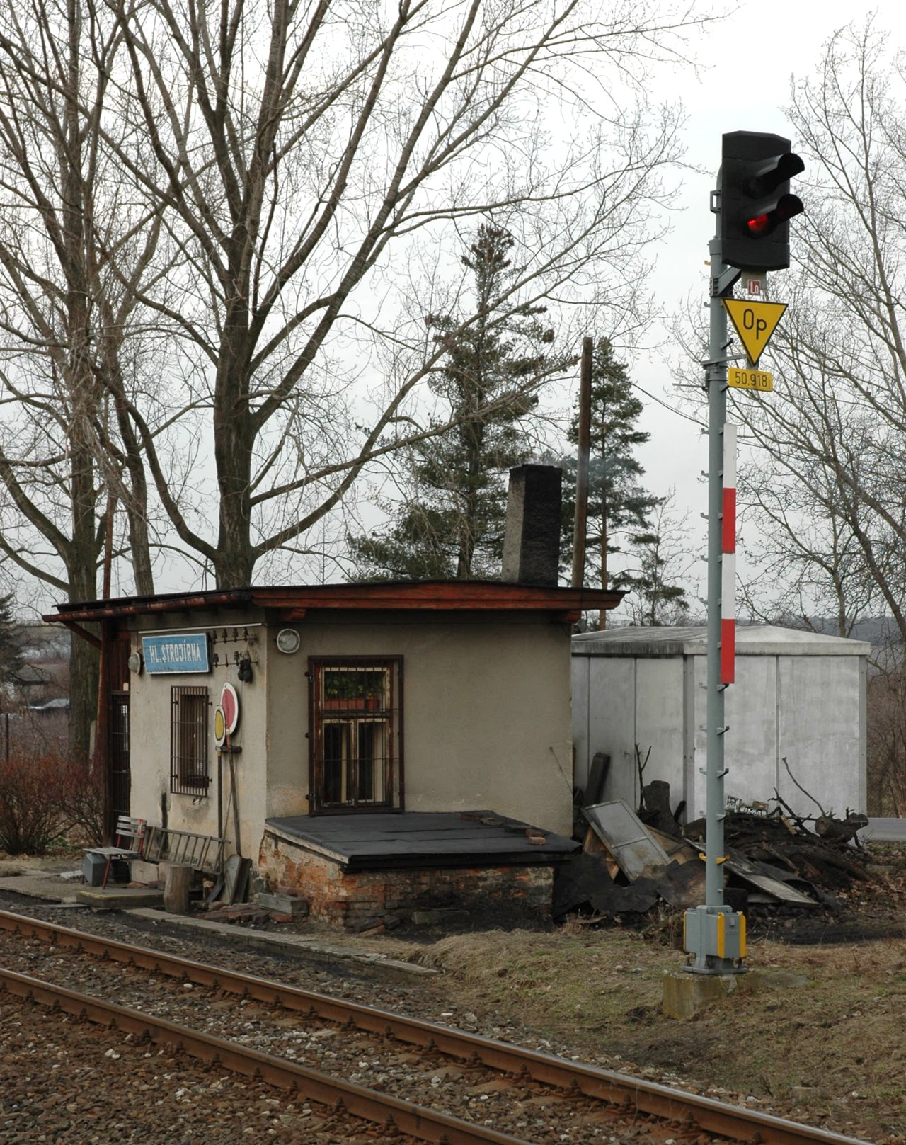 Strojírna train announcing point between stations Podlešín and Slaný, Kralupy nad Vltavou - Louny railway line, Czech Republic